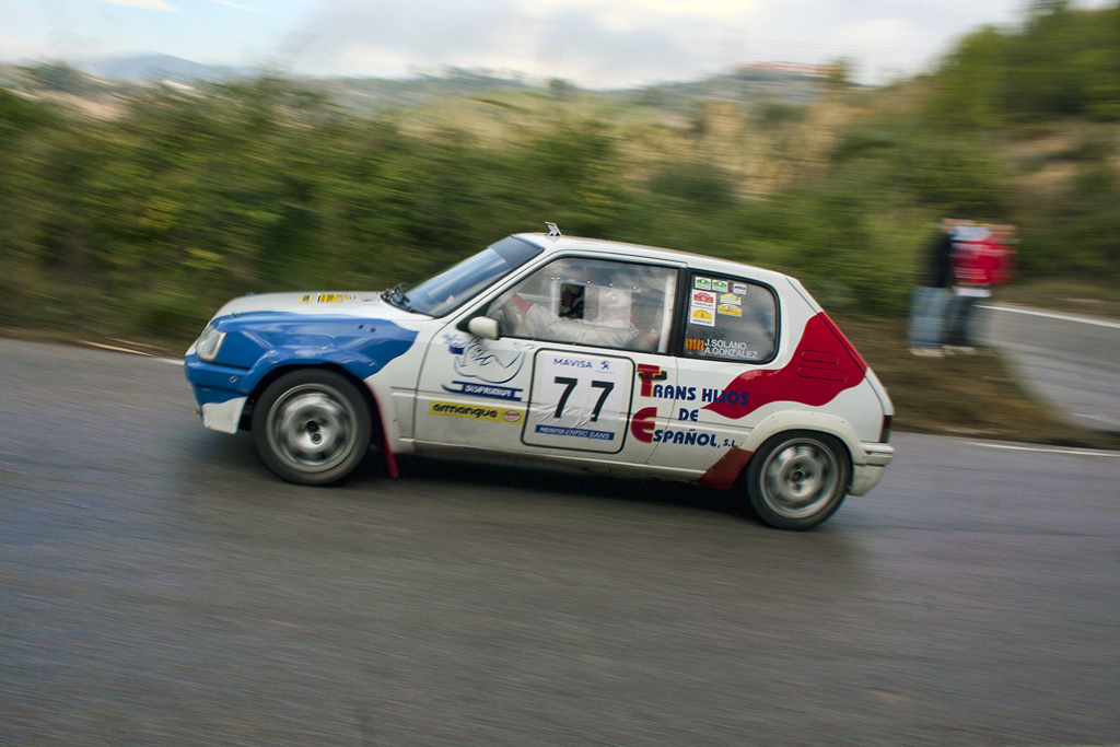 ESC.M.TERRASSA JAVIER SOLANO ALEX GONZÁLEZ Rally Matadepera 2010